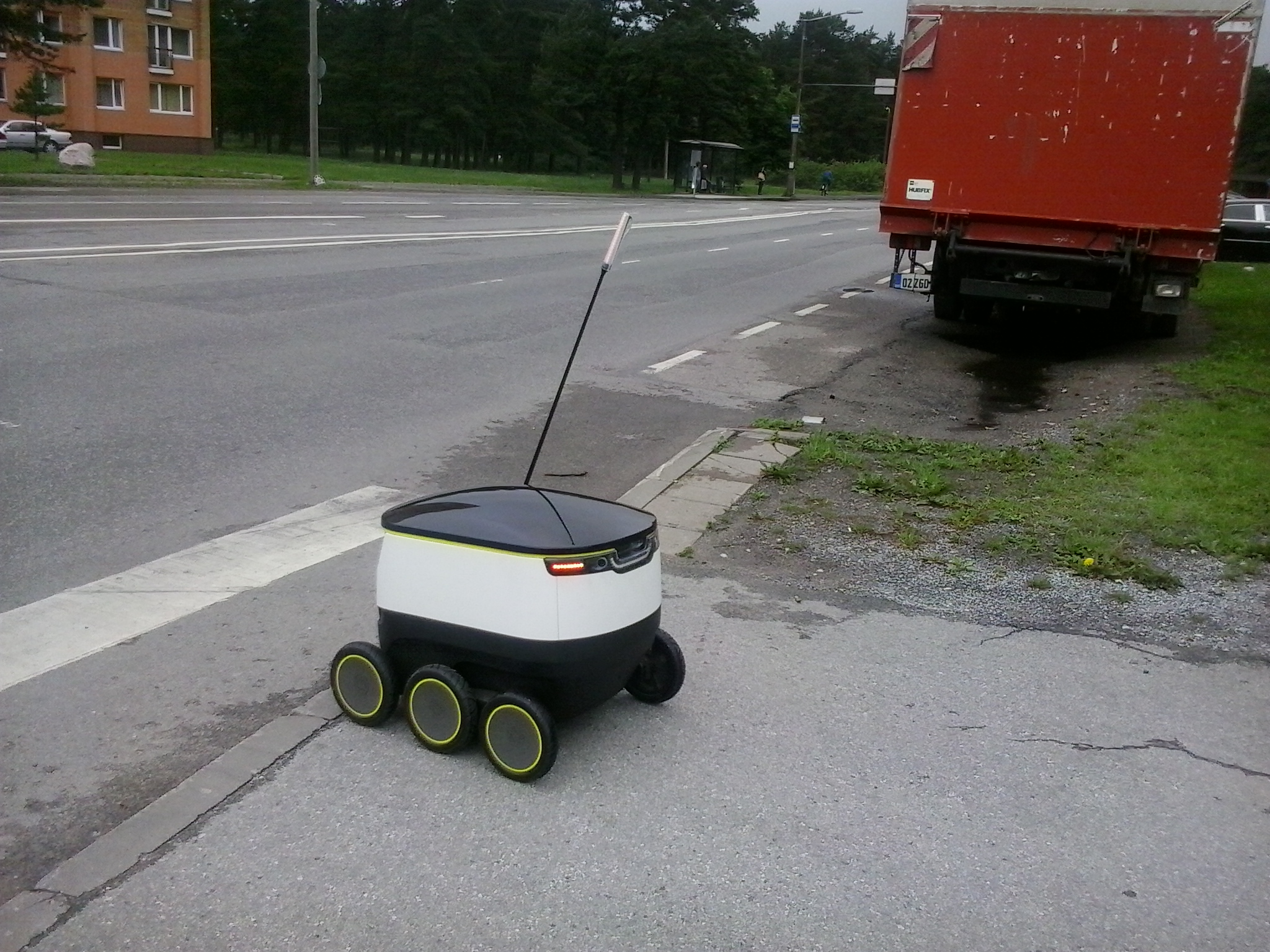 Delivery rover in Tallinn (view from side and back)